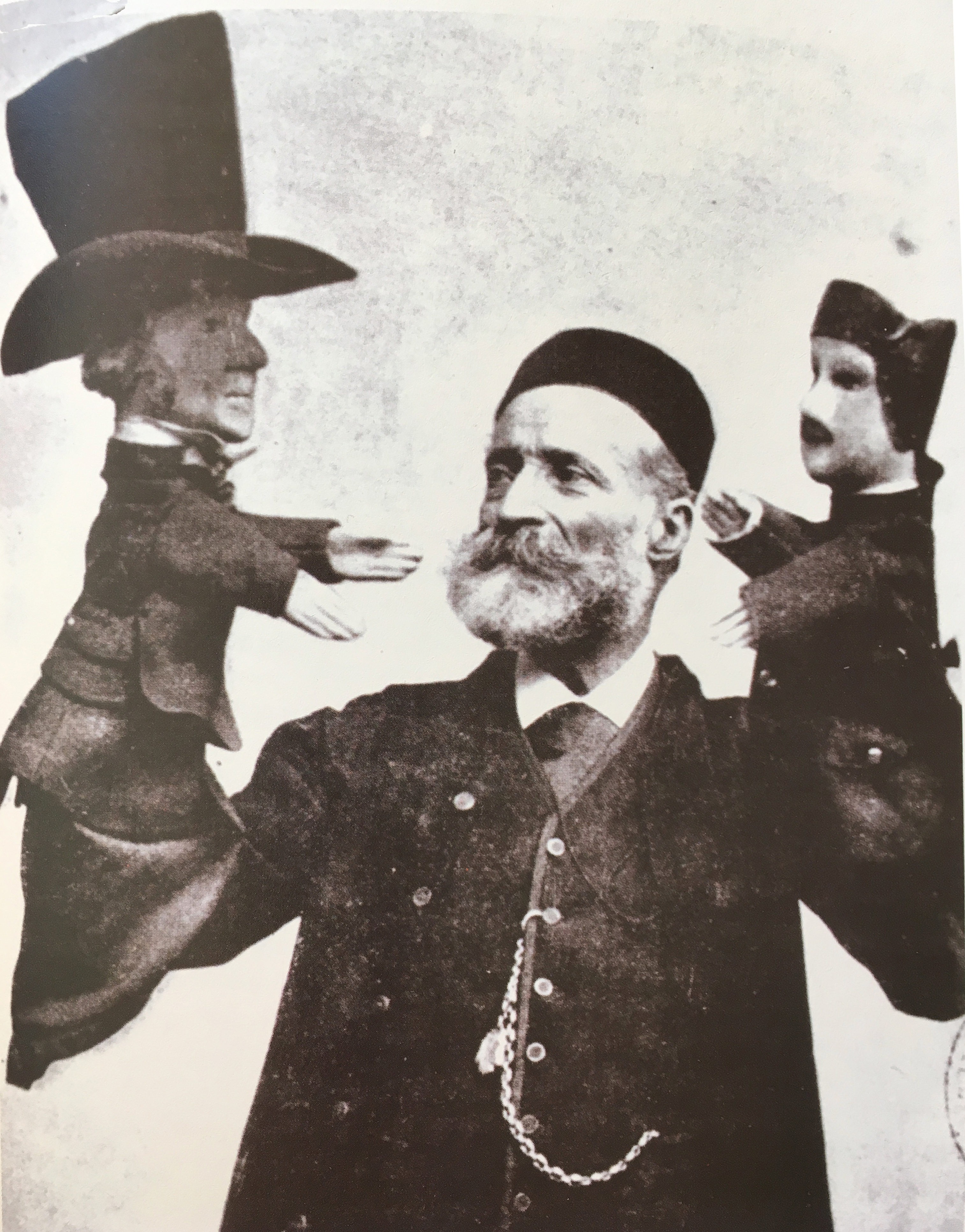 The French puppeteer Pierre Rousset with the two famous Lyon puppets Gnafron (with the top hat) and Guignol